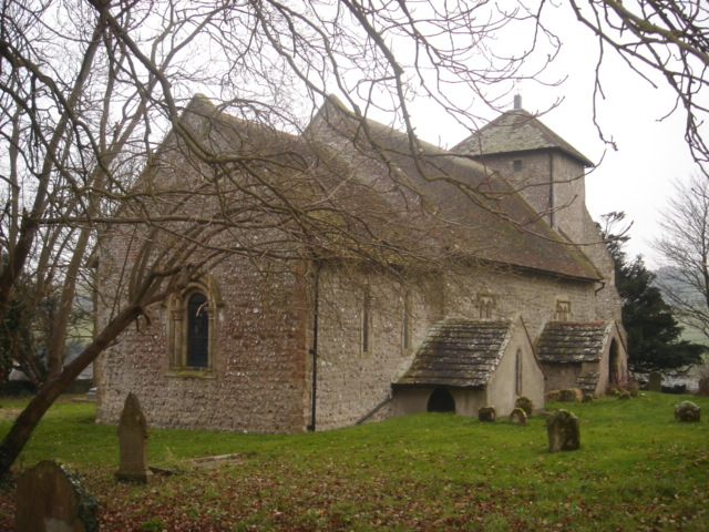 Church of the Transfiguration: a mediaeval Anglican church (mostly 12th- and 13th-century) in the village of Pyecombe, West Sussex, England. Listed at Grade I by English Heritage.